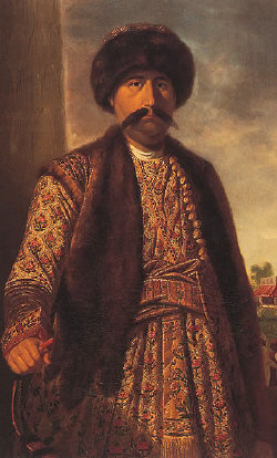 H..H. Wazir ul-Mamalik-i-Hindustan, Shuja ud-Daula, Nawab Jalal ud-din Hyder Khan Bahadur, Asad Jung [Arsh Manzil], Nawab Wazir of Oudh.